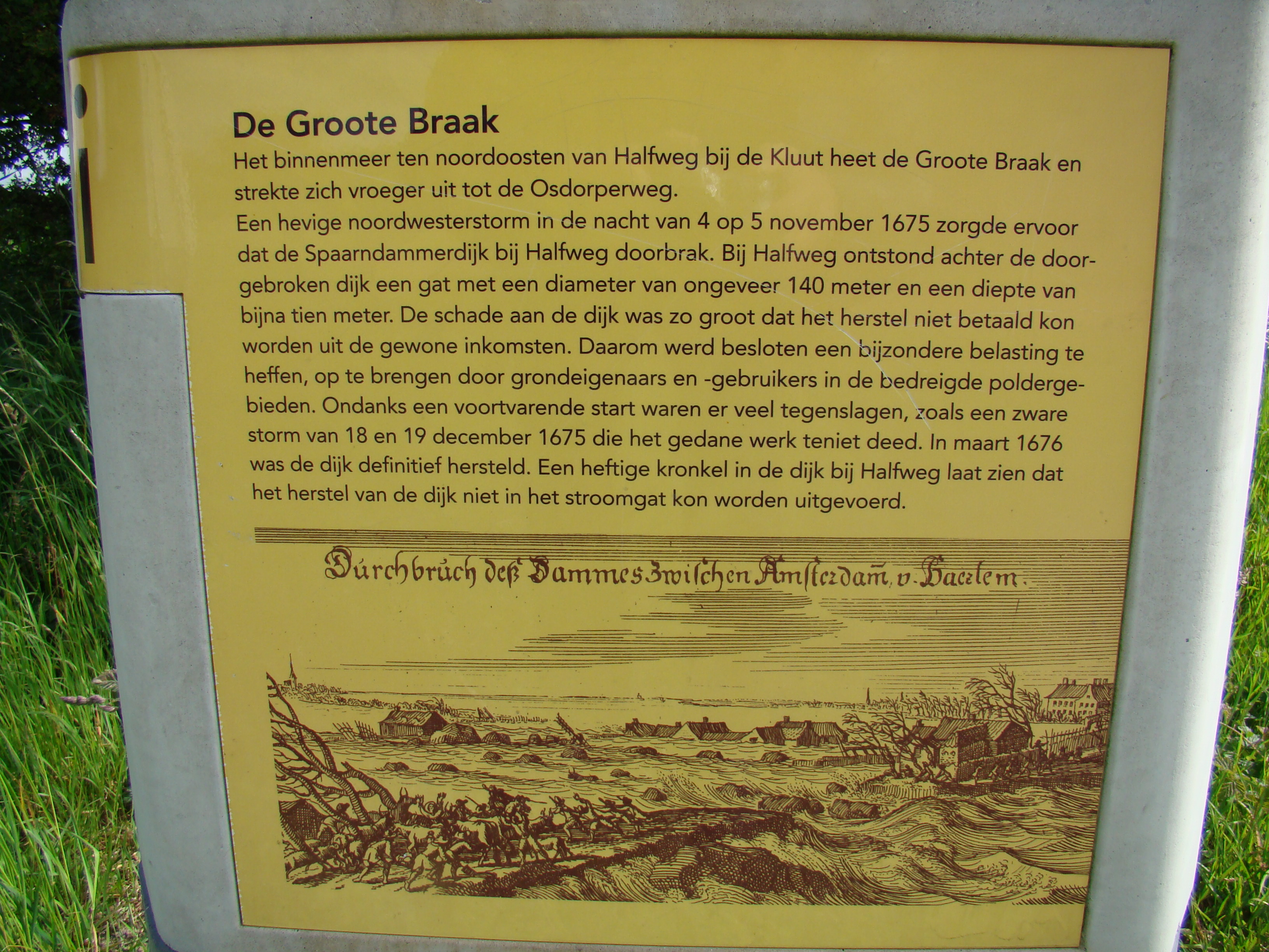 Flood monument at Halfweg "Allerheiligenvloed" 1675 location Grote Braak